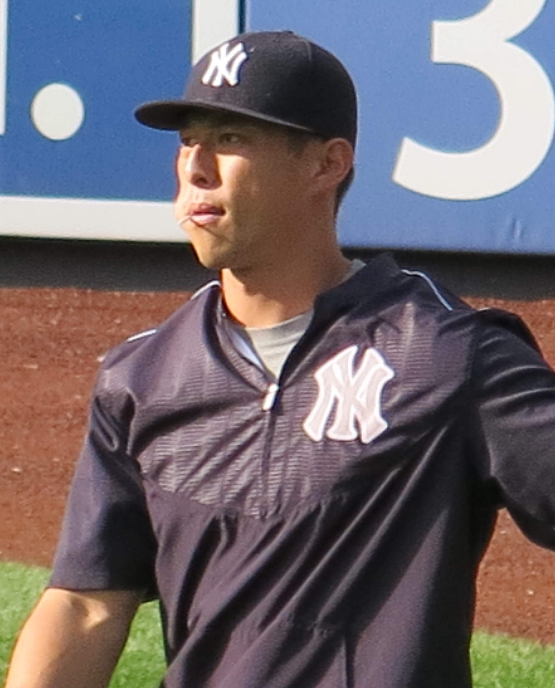 Rob Refsnyder of the New York Yankees, August 2, 2016.